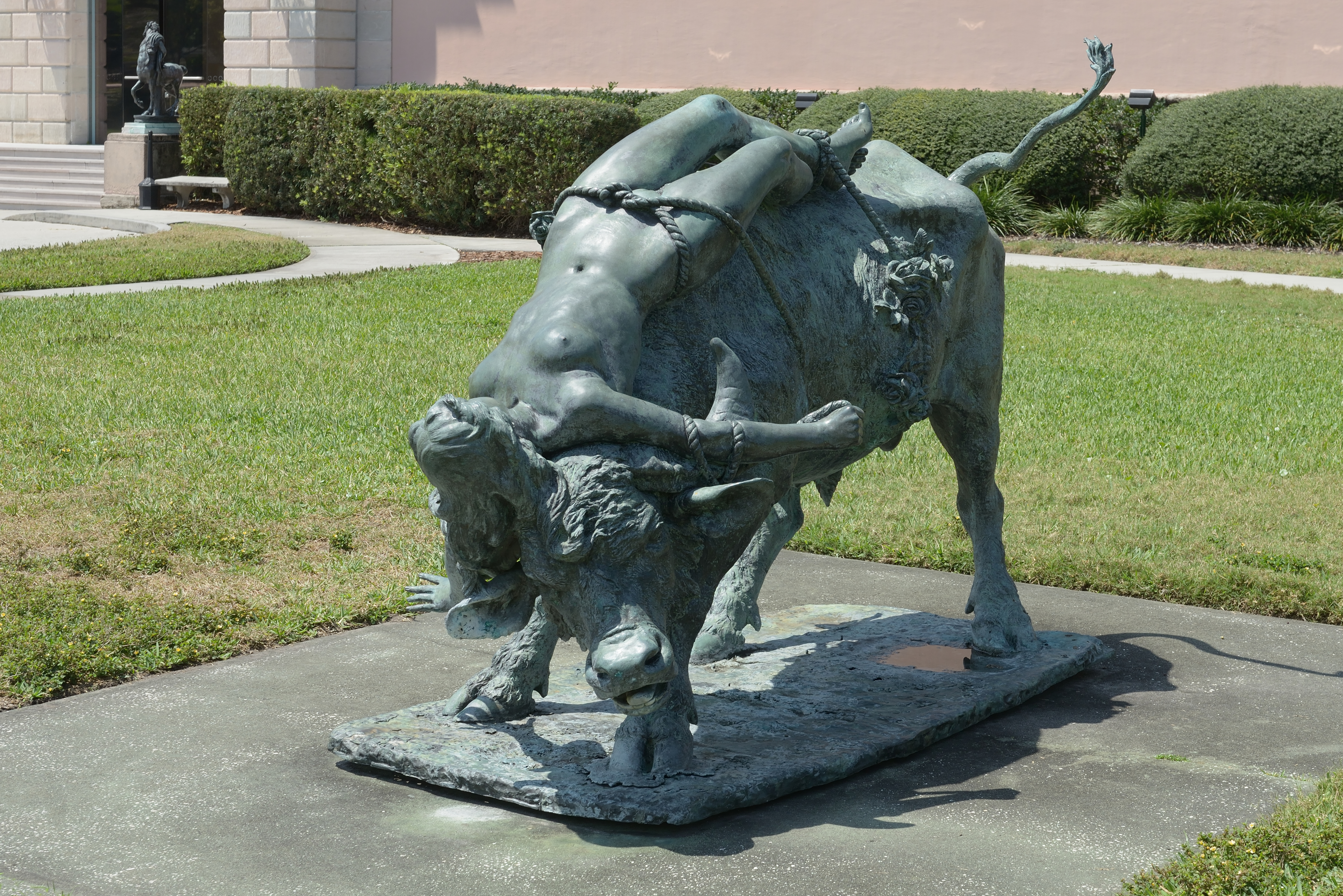 Statue of Lygea tied to the bull by Giuseppe Moretti at the entrance to the John and Mable Ringling Museum of Art in Sarasota in Florida.